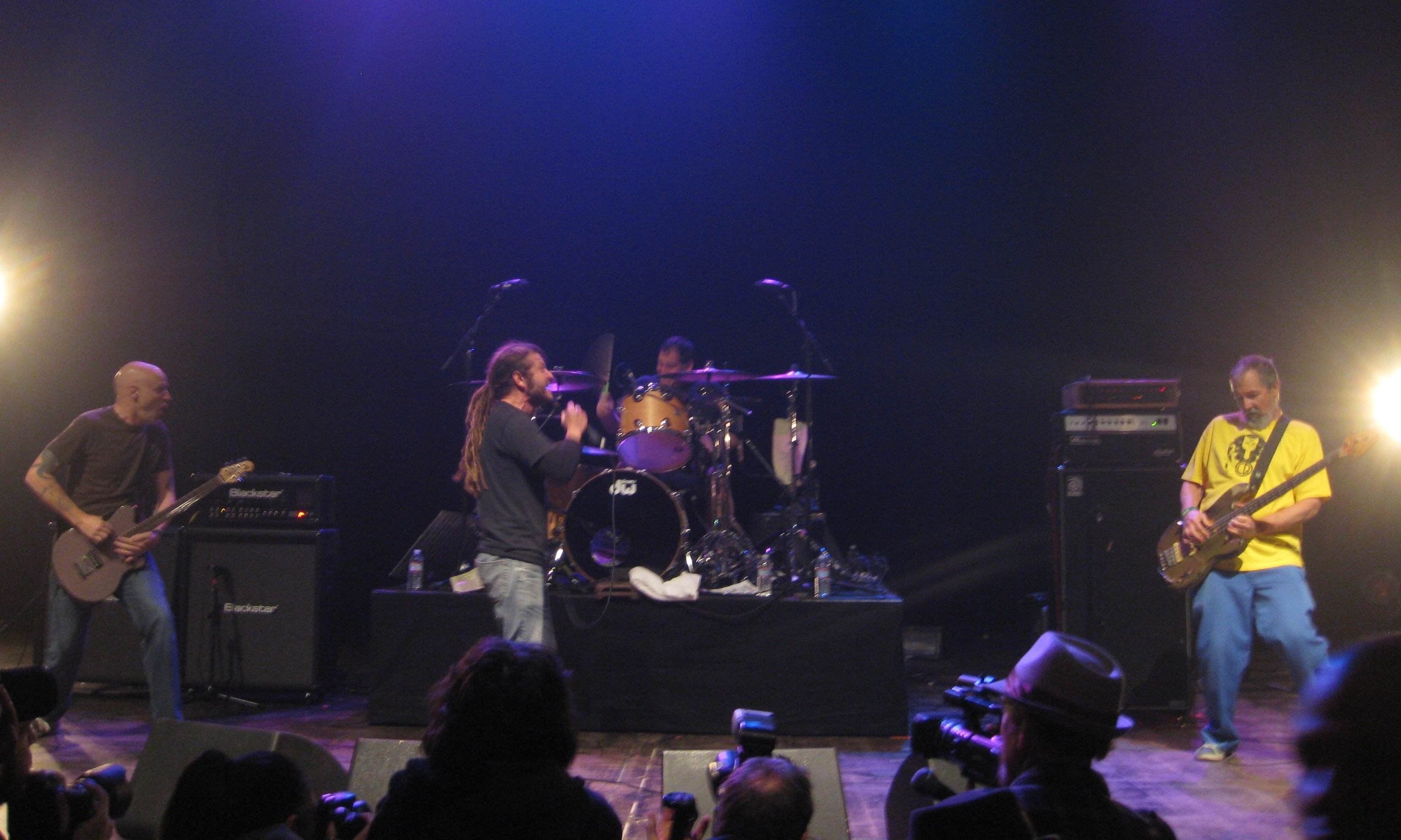 Left to right: Guitarist Stephen Egerton, singer Keith Morris, drummer Bill Stevenson, and bassist Chuck Dukowski performing as Black Flag on December 18, 2011 at the Santa Monica Civic Auditorium in Santa Monica, California as part of the GV30 event.